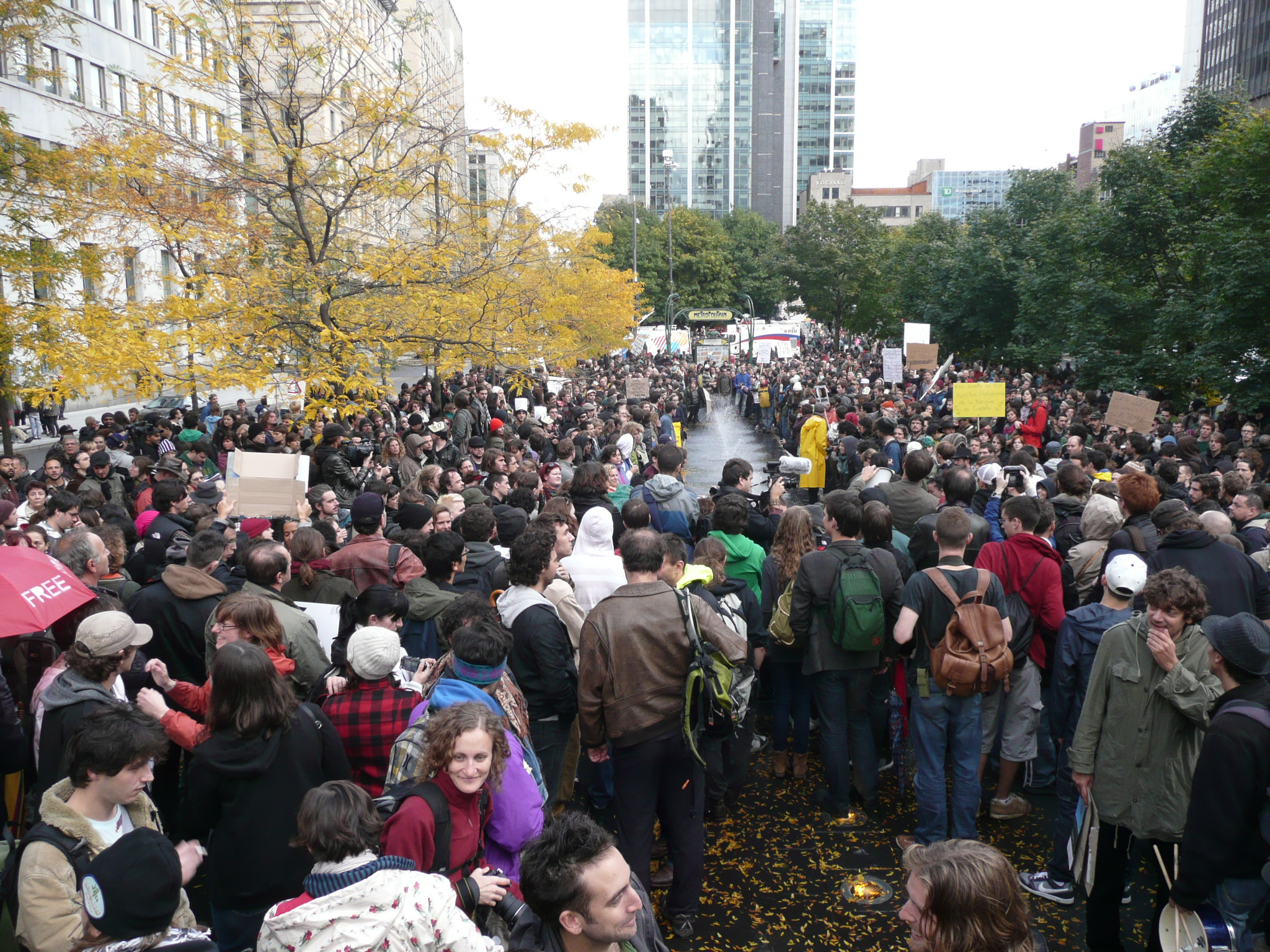 Occupy Montreal on Saturday, October 15, a Global Day of Action for the Occupy Together movement. Over 1,000 people convened at Victoria Square to take part in the peaceful democratic expression.